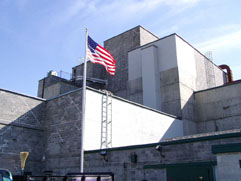 B Reactor at Hanford - After the Concrete Wall Repairs and Painting was Completed This image is a work of a United States Department of Energy (or predecessor organization) employee, taken or made as part of that person's official duties. As a work of the U.S. federal government, the image is in the public domain. Please note that national laboratories operate under varying licences and some are not free. Check the site policies of any national lab before crediting it with this tag.